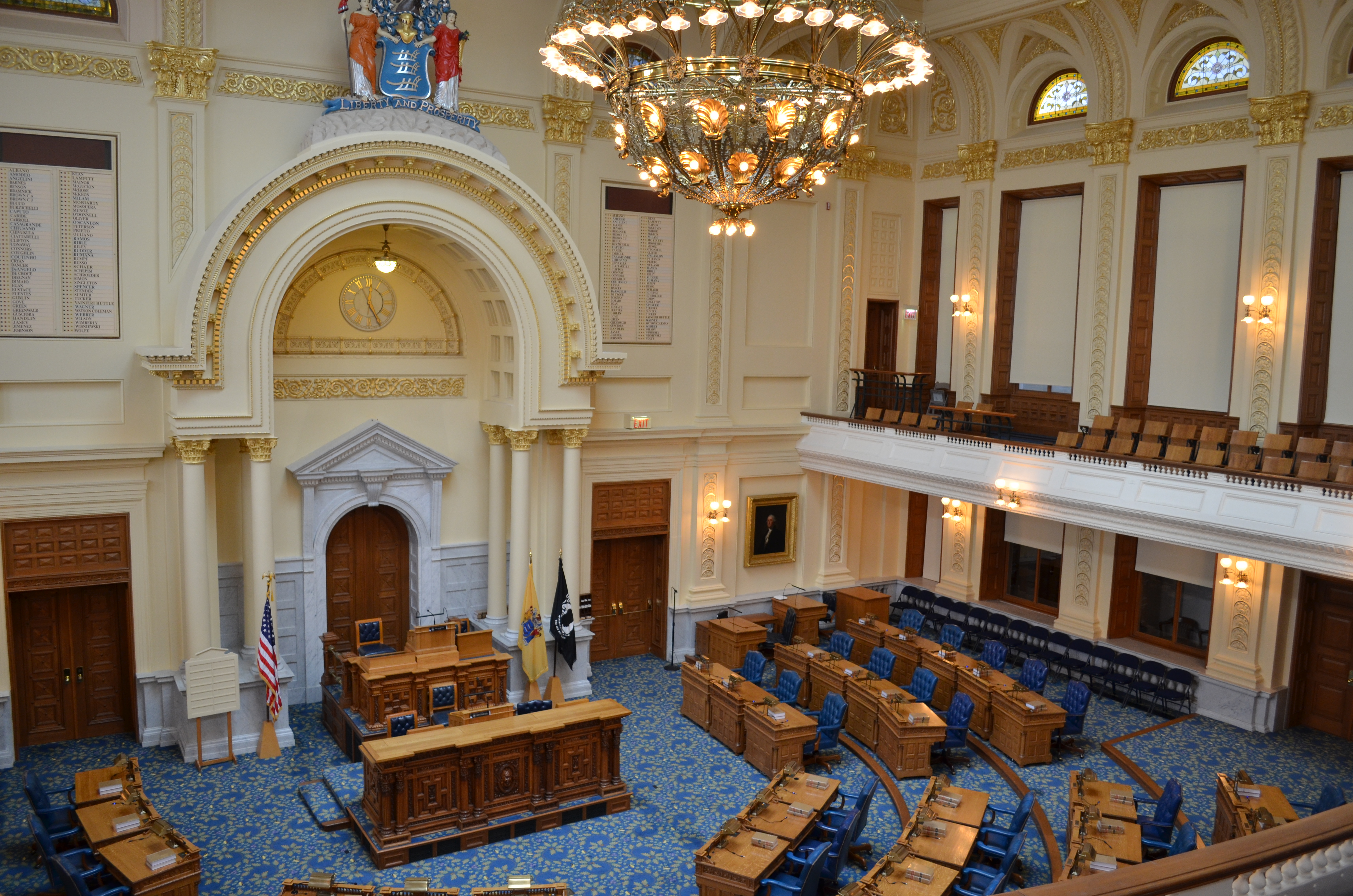 The New Jersey General Assembly chamber of the New Jersey State House in Trenton, New Jersey.